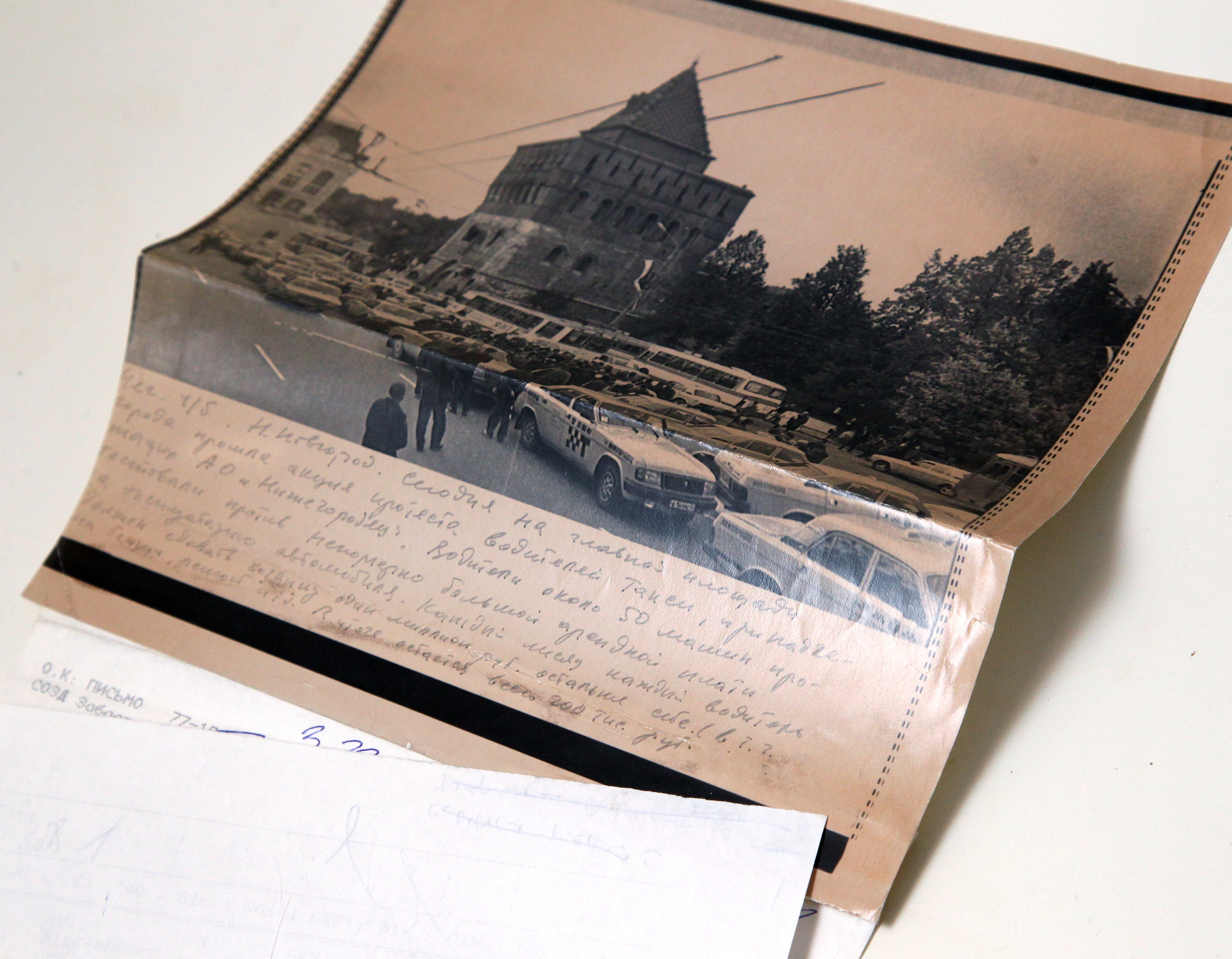 TASS picture, received via phone wire.